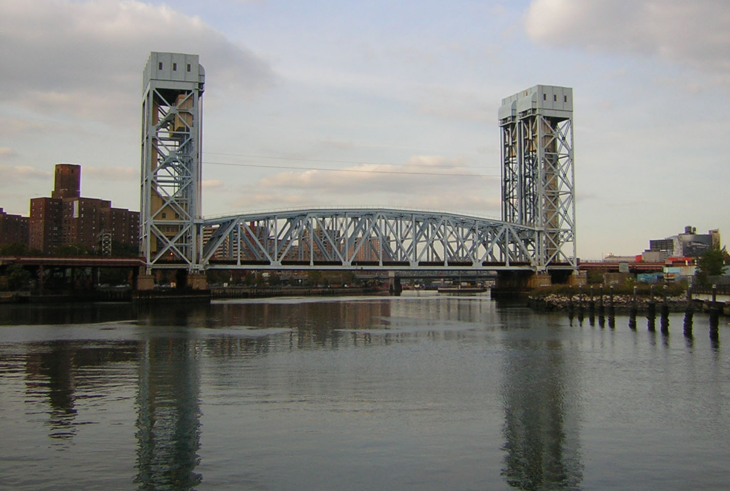 Park Avenue Bridge, on a partly cloudy early afternoon, from the foredeck of a Circle Line boat approaching from downriver (southeast).